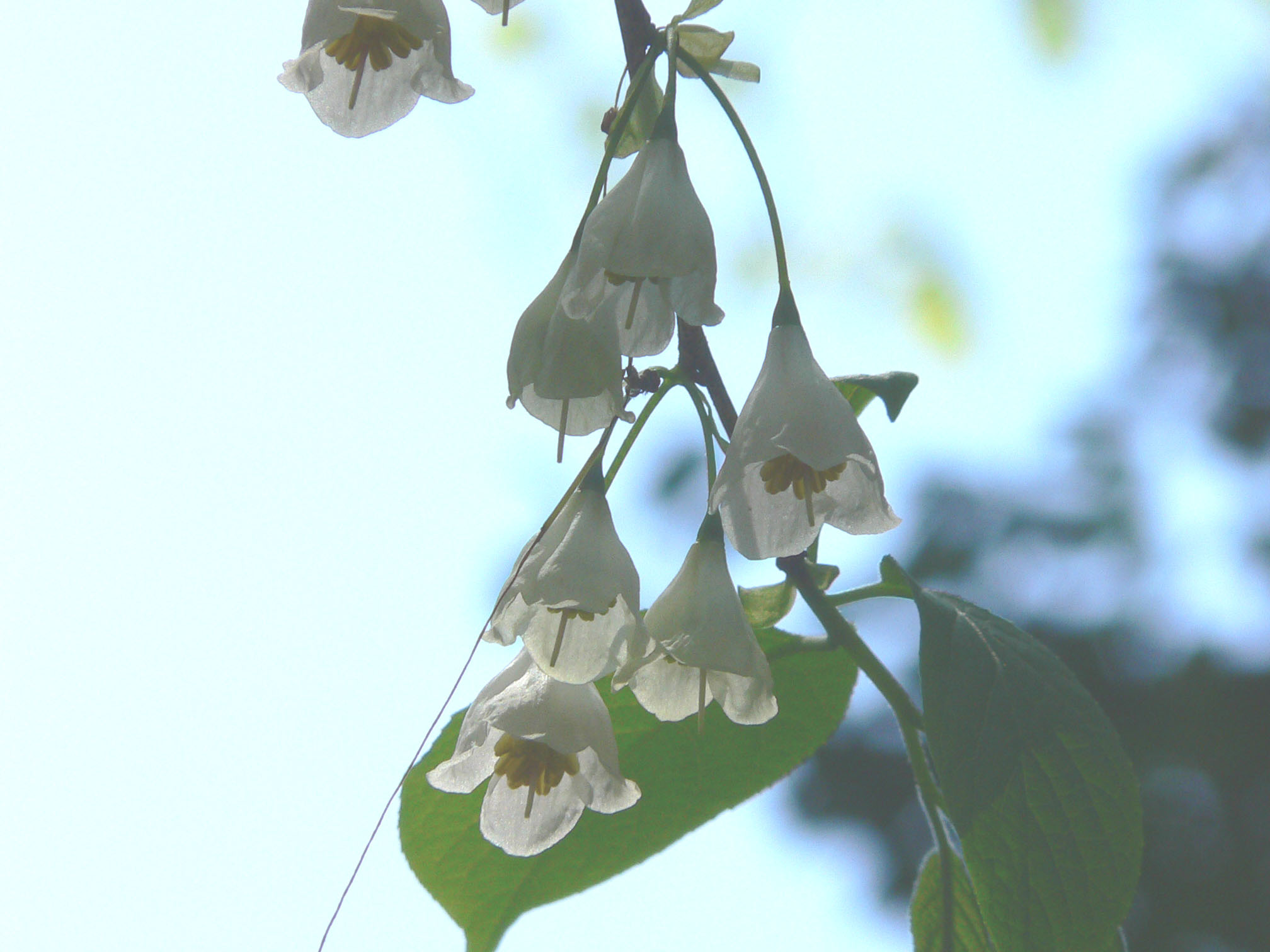 Pictures from Longwood Gardens